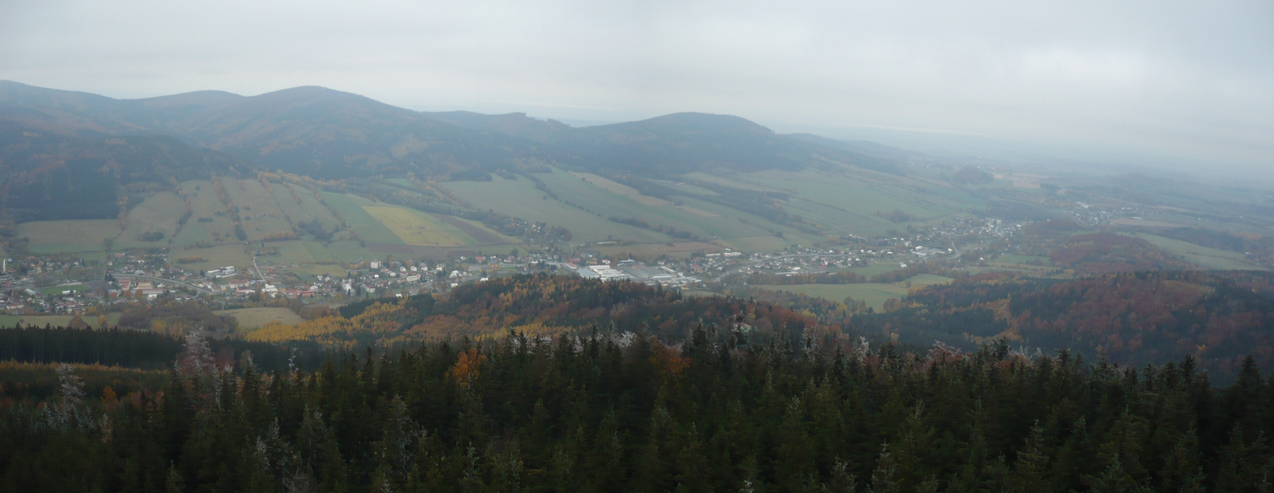 Observation Tower Zlaty Chlum, near town Jesenik, Czech Republic - Panorama view